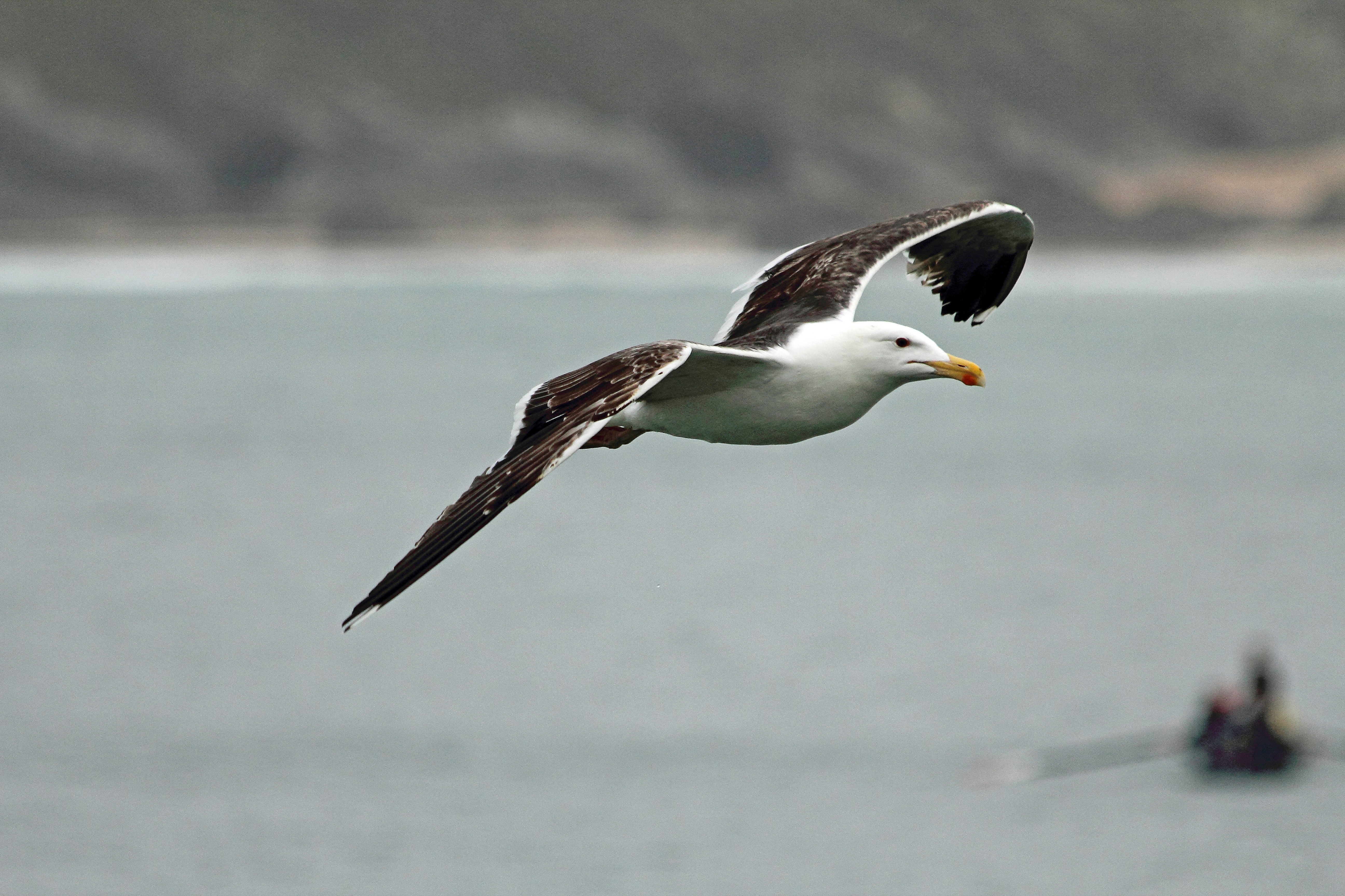 Latin name Larus marinus Family Gulls (Laridae) Overview A very large, thick-set black-backed gull, with a powerful beak. Adults are... Where to see them ... When to see them All year round - found inland most in winter. What they eat Omnivorous - shellfish, birds and carrion.